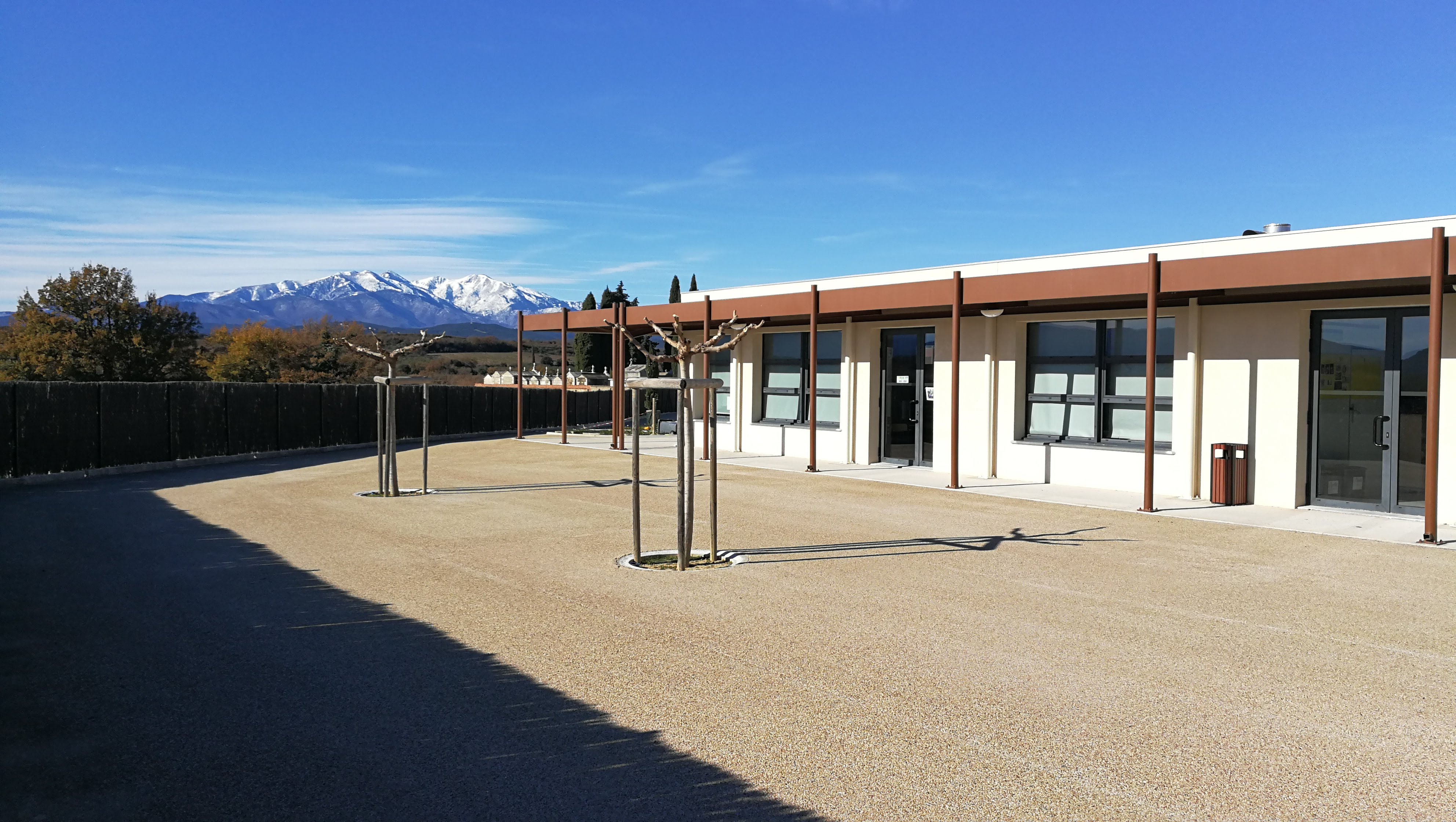 François Pous primary school in Tresserre